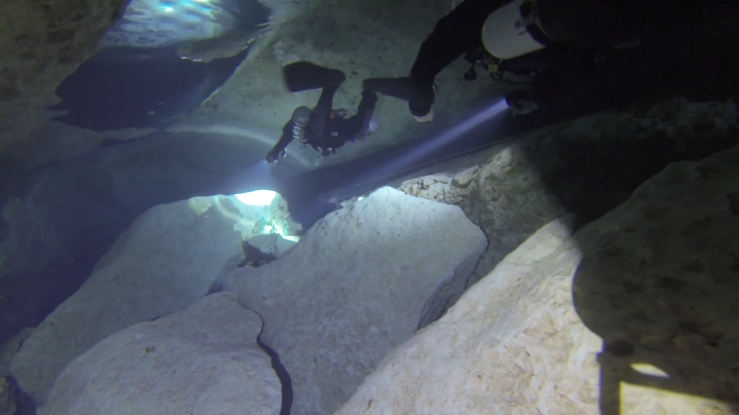 JB CAVE